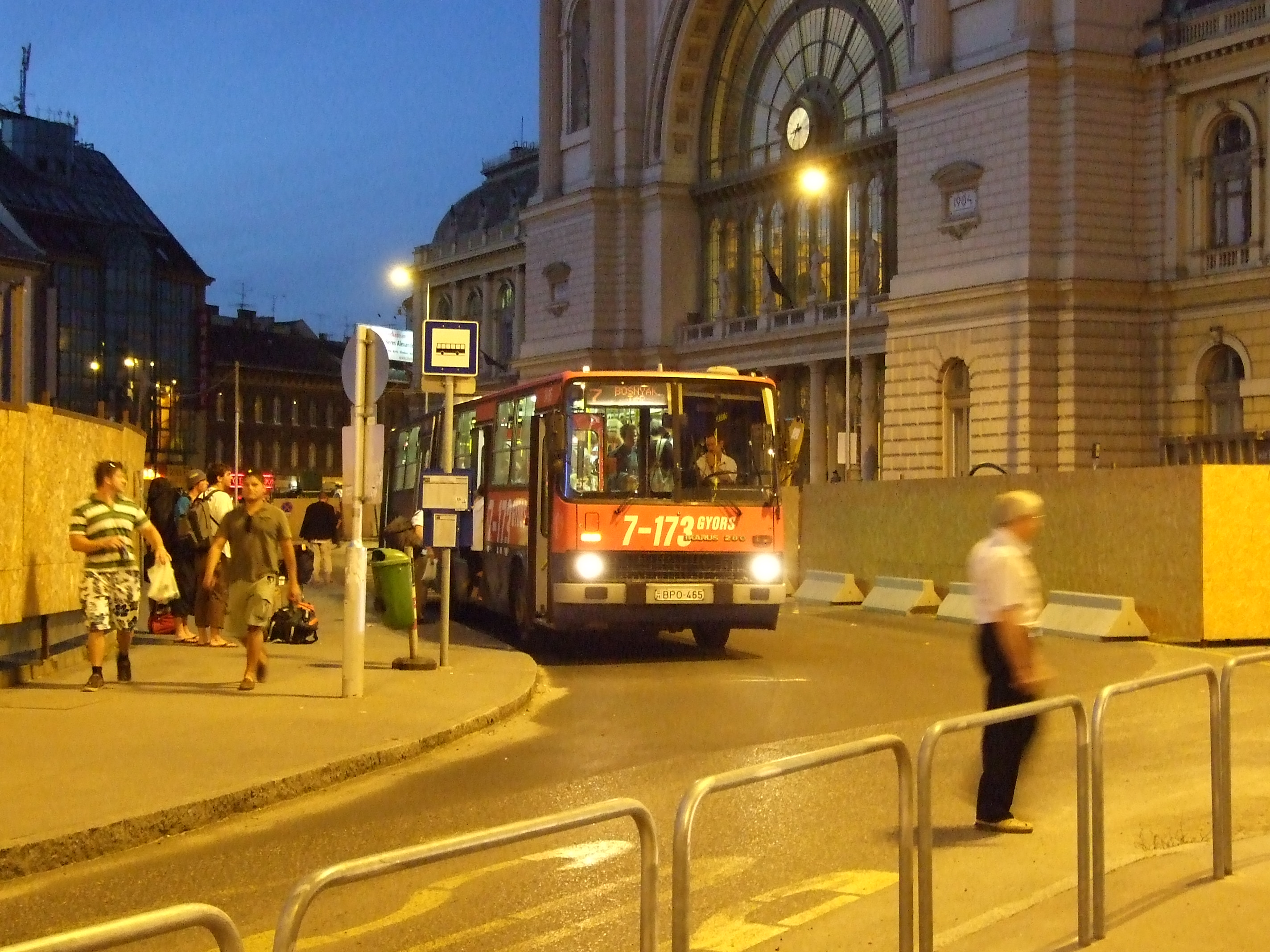 Ikarus 280 bus at Keleti pályaudvar bus terminal in Budapest, HU